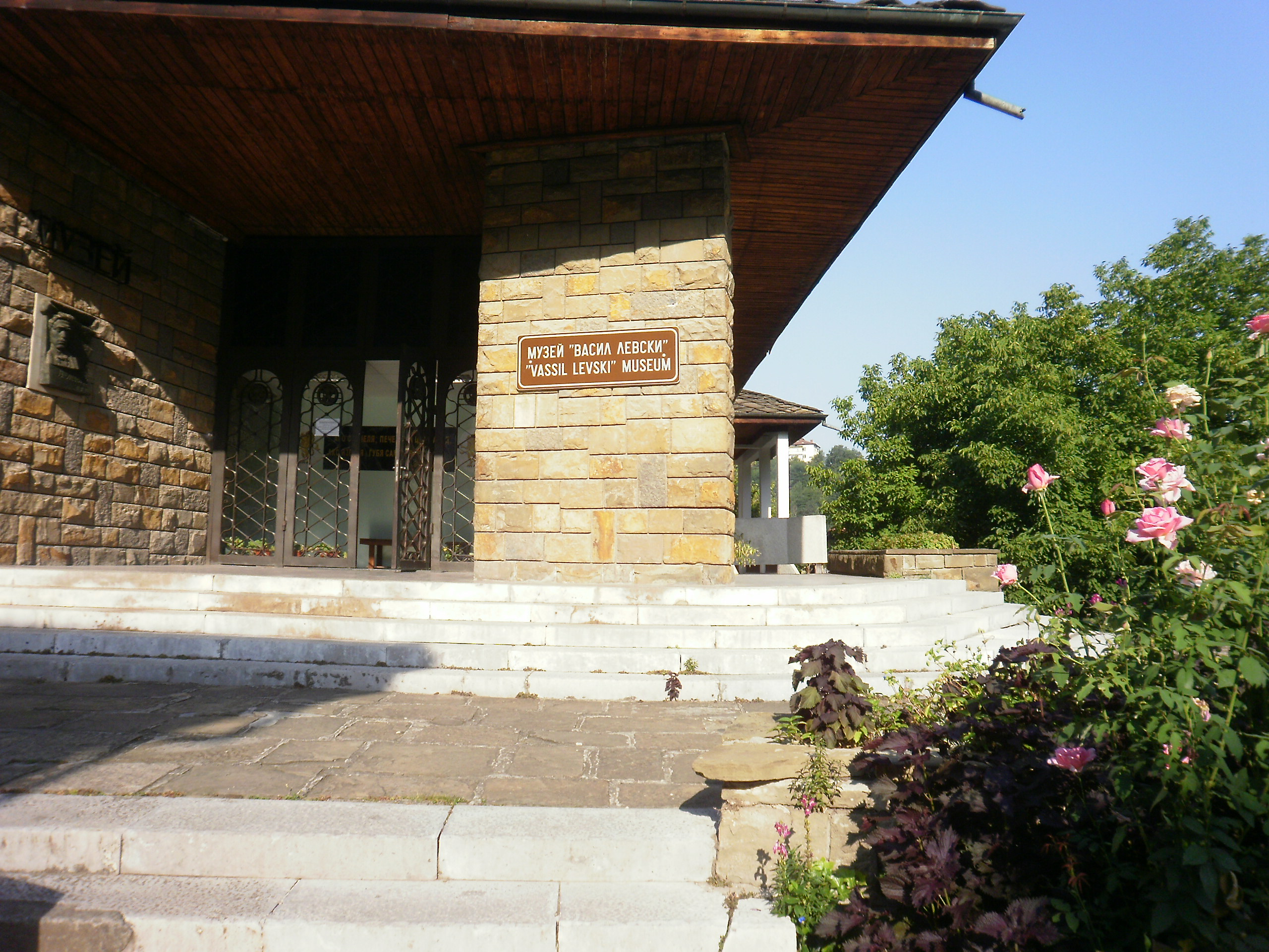 Museum of Vasil Levski, Lovech